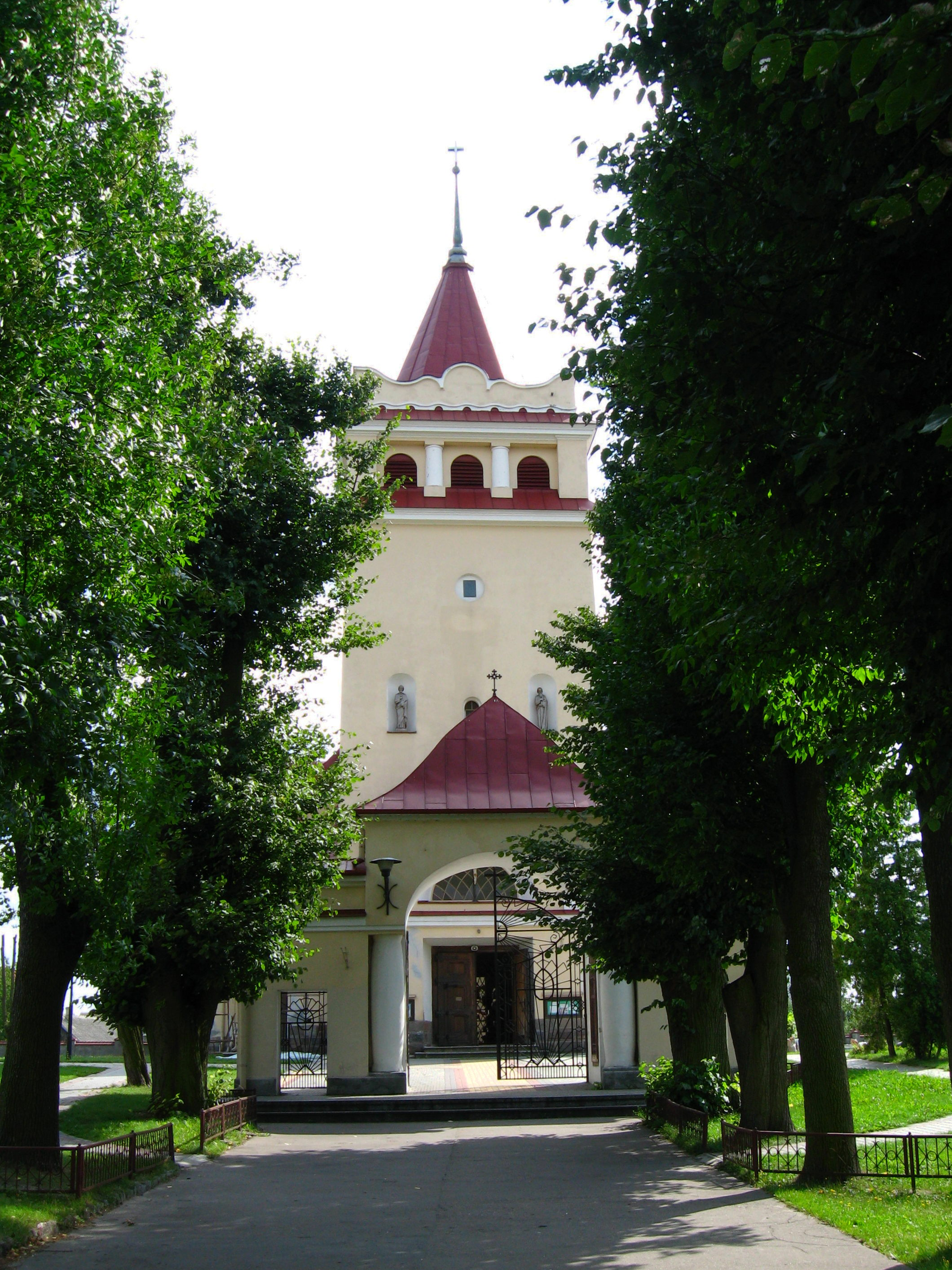 Roman–catholic church of saints Peter and Paul, from year 1927